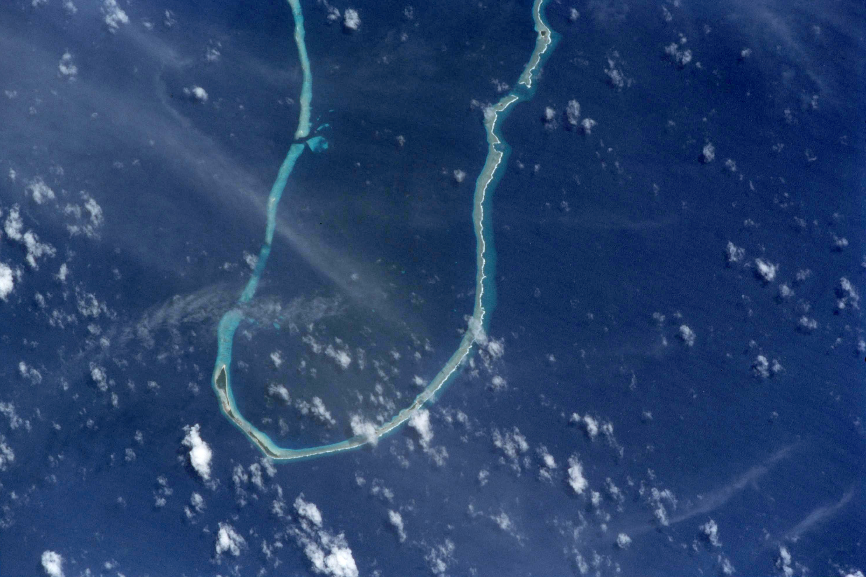 NASA Astronaut Image of Erikub Atoll, Marshall Islands